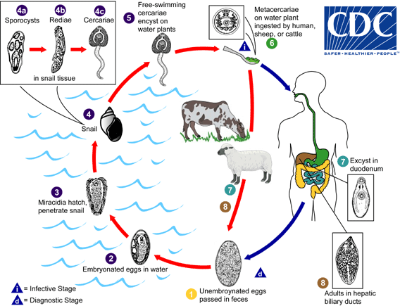 Immature eggs are discharged in the biliary ducts and in the stool The number 1. Eggs become embryonated in water The number 2, eggs release miracidia The number 3, which invade a suitable snail intermediate host The number 4, including the genera Galba, Fossaria and Pseudosuccinea. In the snail the parasites undergo several developmental stages (sporocysts The number 4a, rediae The number 4b, and cercariae The number 4c). The cercariae are released from the snail The number 5 and encyst as metacercariae on aquatic vegetation or other surfaces. Mammals acquire the infection by eating vegetation containing metacercariae. Humans can become infected by ingesting metacercariae-containing freshwater plants, especially watercress The number 6. After ingestion, the metacercariae excyst in the duodenum The number 7 and migrate through the intestinal wall, the peritoneal cavity, and the liver parenchyma into the biliary ducts, where they develop into adults The number 8. In humans, maturation from metacercariae into adult flukes takes approximately 3 to 4 months. The adult flukes (Fasciola hepatica: up to 30 mm by 13 mm; F. gigantica: up to 75 mm) reside in the large biliary ducts of the mammalian host. Fasciola hepatica infect various animal species, mostly herbivores.